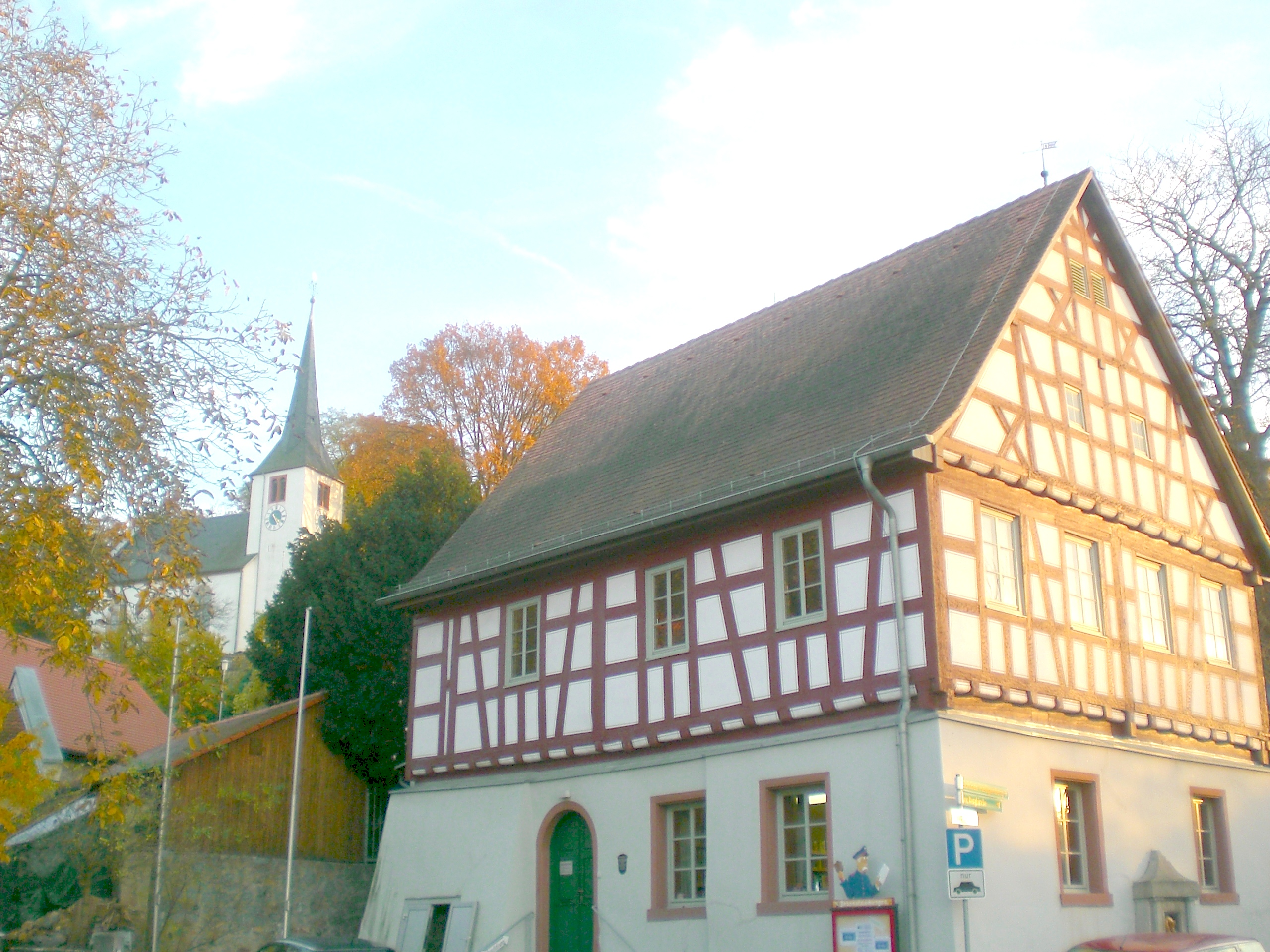 The public library in a historical timber framed house of Seeheim-Jugenheim, Germany